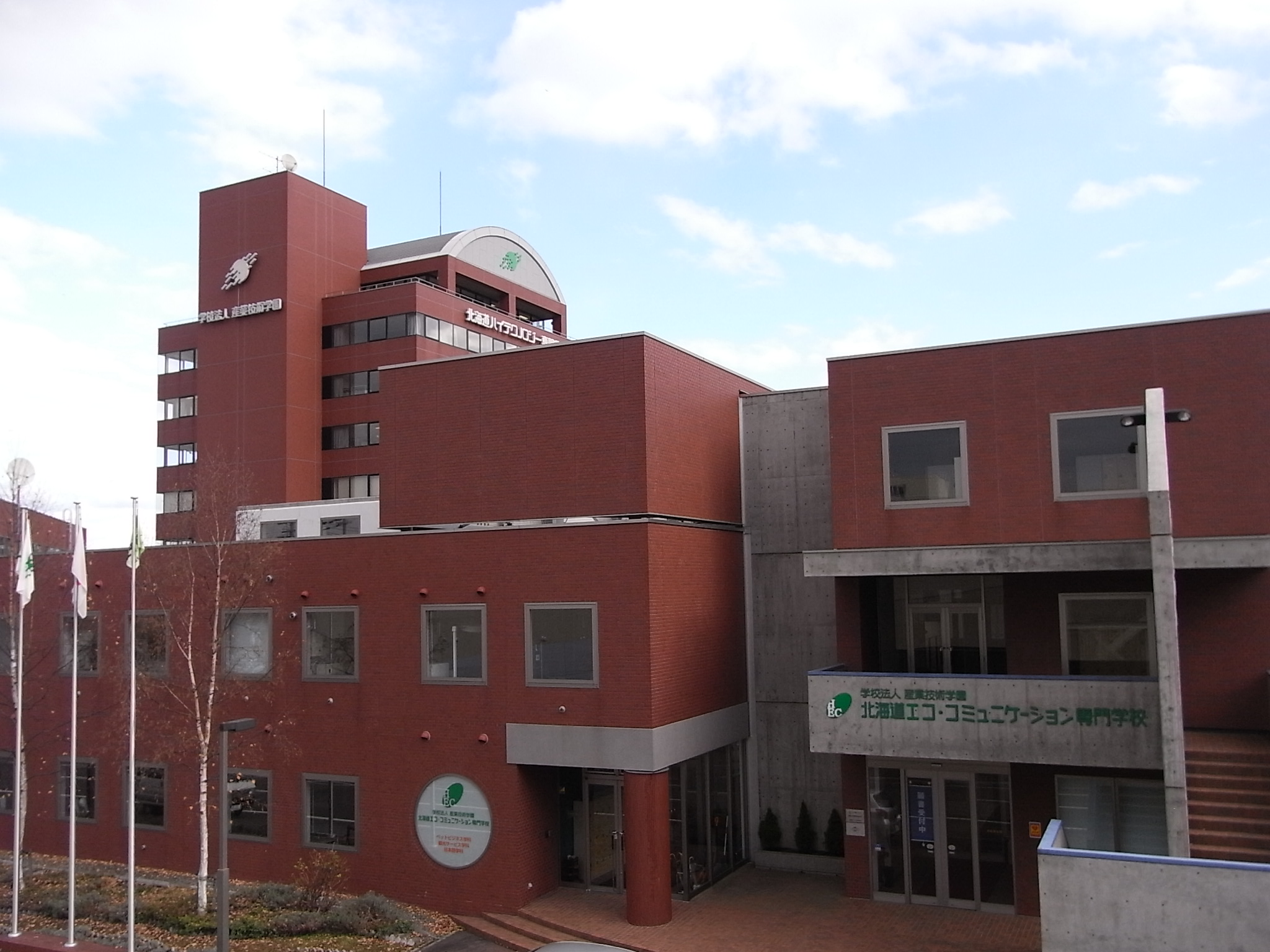 Hokkaido Eco Communication College (currently Hokkaido Eco Collage of Wildlife and Nature) in Megumino, in Eniwa, Hokkaido. Seen behind is the Hokkaido High-Technology College.